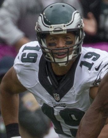 Eagles at Redskins 10/04/15